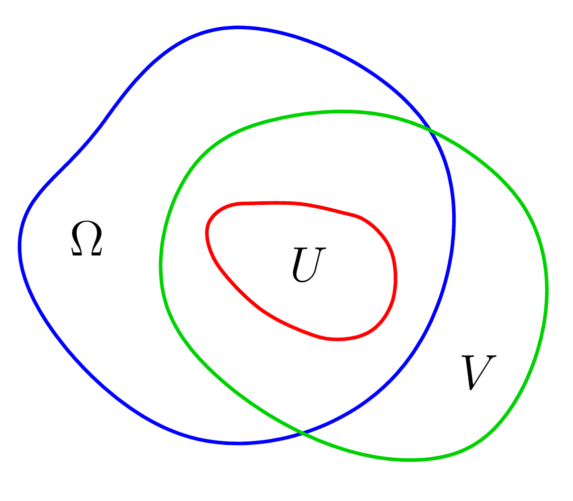 The sets in the definition.